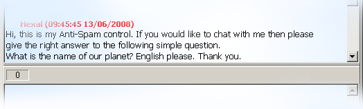 illustrative picture to IM-based anti-spam control